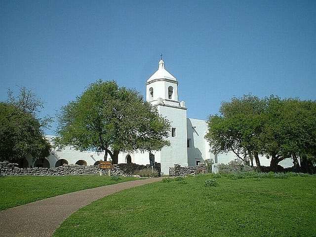 took this picture at the site